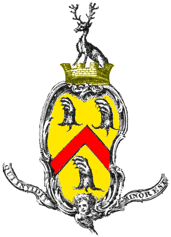 Family coat of arms of Jane Austen, the author, taken from the heraldic bookplate of John Austen Esq. of Broadford, Kent, England — who was either Jane Austen's patrilineal cousin once removed (lived 1716-1807), or her patrilineal second cousin (lived 1777-1851), depending on which one of a father and son is meant. The blazon is: Or, a chevron gules between three lions' gambs erect erased sable armed of the second. Crest: On a mural crown or, a stag sejant argent, attired or. (A mural crown, unlike many other types of crowns or coronets, is not any sign of aristocracy or nobility; however, the right to bear arms does suggest some degree of family social prominence. According to the 1909 edition of Fox-Davies' "Complete Guide to Heraldry", after the early 19th-century, the English College of Arms granted new mural-crown crests only to high-ranking officers in the British army.) Note that the ornamental winged child's head at the bottom of the heraldic shield is not actually part of the coat of arms. A heraldic display for Jane Austen individually would probably have been shown on the "lozenge" (or diamond shape) considered appropriate for a woman, rather than on a shield, and without the crest above. The Latin motto, "QUI INVIDIT MINOR EST", can be translated as "Who(ever) envies (me) is lesser/smaller (than I am)". Due to the nature of the source image, small detail colors (the "arming" of the claws of the lion's paws in red and the "attiring" of the deer's horns in gold/yellow) are not shown, and it's not as clear as it might be that the stag is supposed to be white.